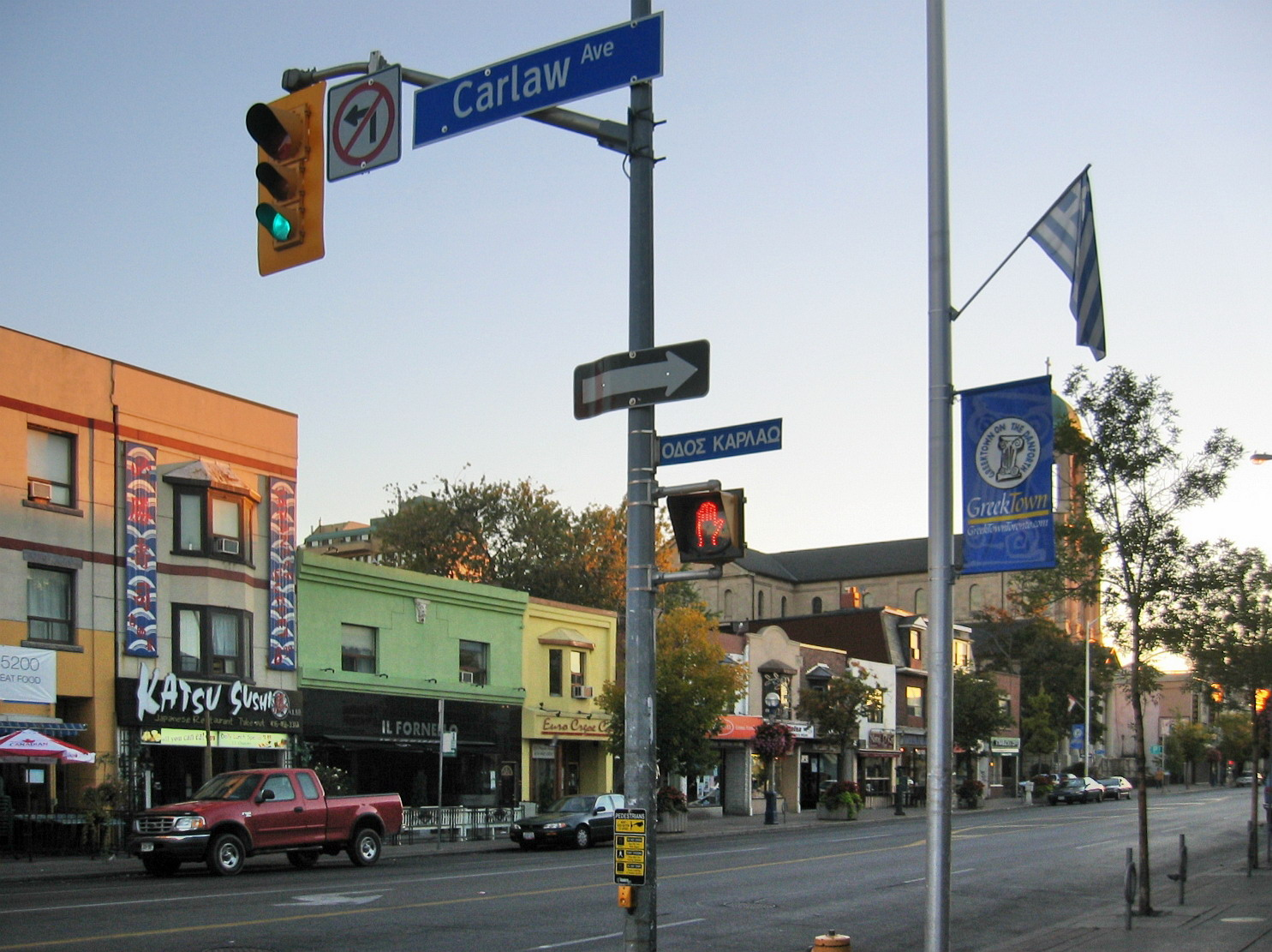 Danforth Avenue, at Carlaw, looking east, early Sunday morning